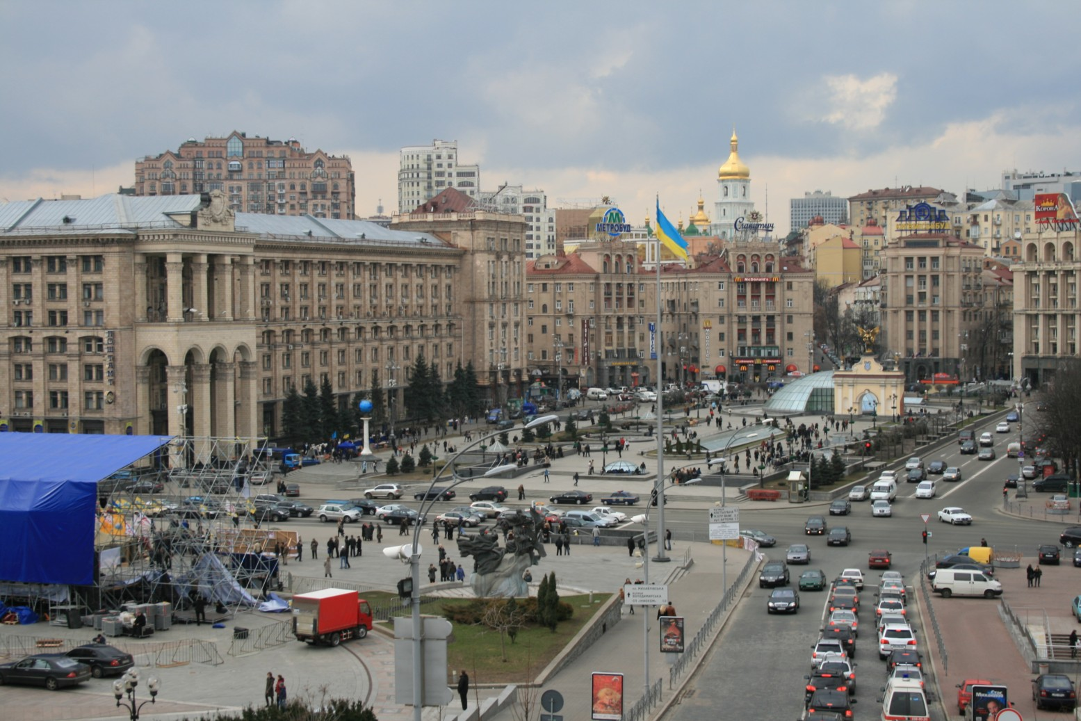 The independence square (Maidan Nezalezhnosti)